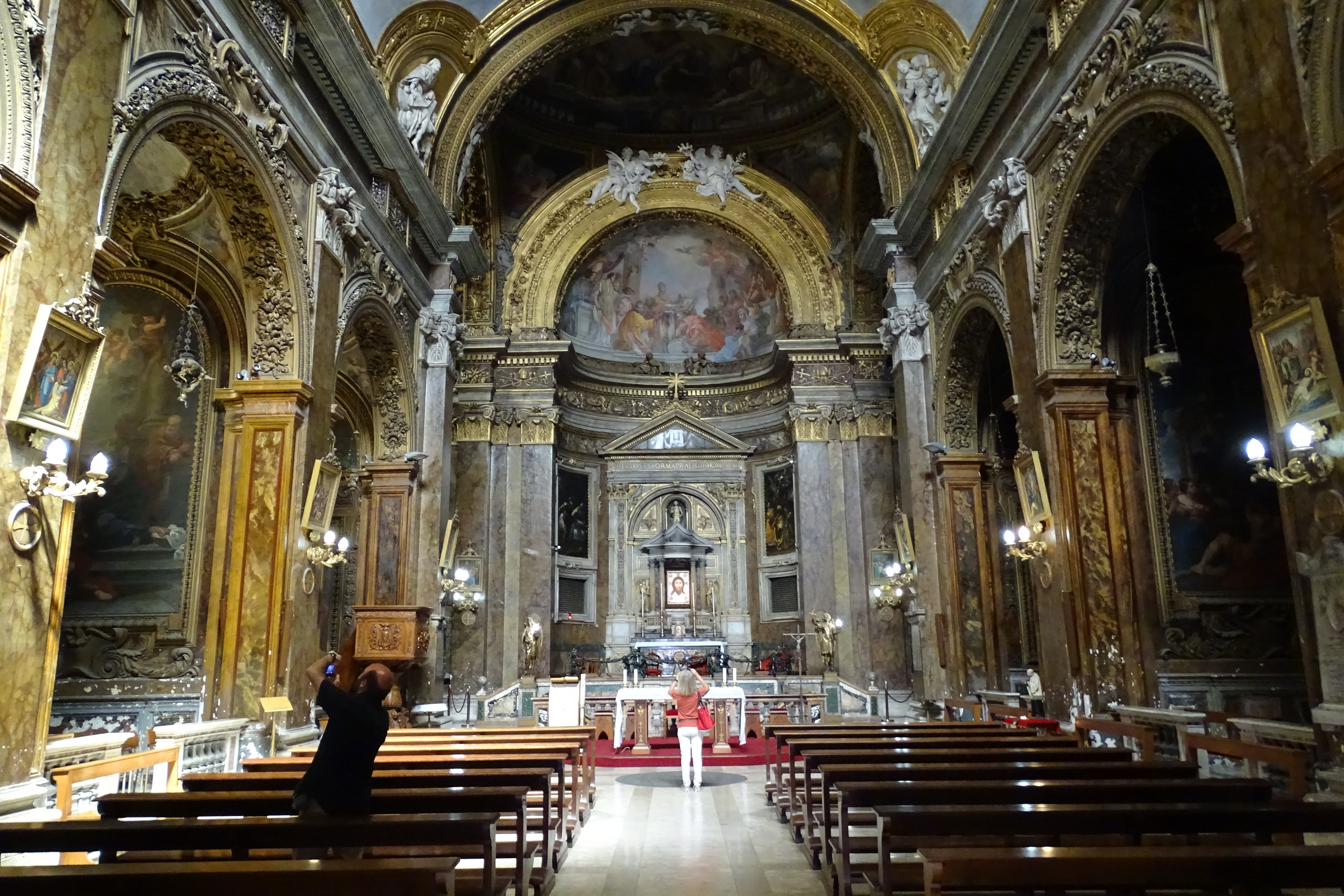 Church of St. Sylvester in Capite - Interior